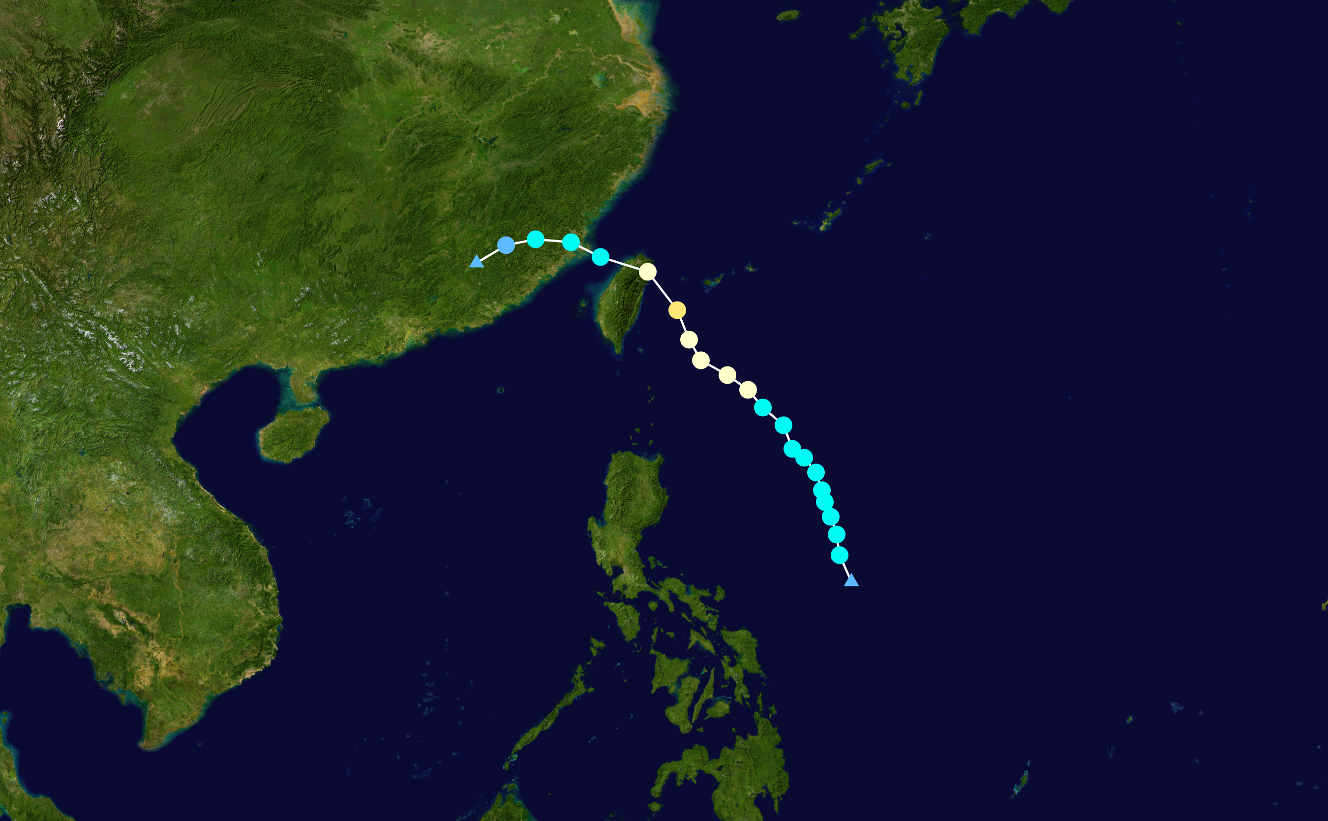 Track map of Typhoon Nesat of the 2017 Pacific typhoon season. The points show the location of the storm at 6-hour intervals. The colour represents the storm's maximum sustained wind speeds as classified in the Saffir–Simpson scale (see below), and the shape of the data points represent the nature of the storm, according to the legend below. Saffir–Simpson scale Tropical depression≤38 mph≤62 km/h Category 3111–129 mph178–208 km/h Tropical storm39–73 mph63–118 km/h Category 4130–156 mph209–251 km/h Category 174–95 mph119–153 km/h Category 5≥157 mph≥252 km/h Category 296–110 mph154–177 km/h Unknown Storm type Tropical cyclone Subtropical cyclone Extratropical cyclone / Remnant low / Tropical disturbance / Monsoon depression